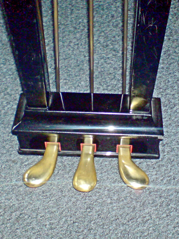 Pedals of a grand piano